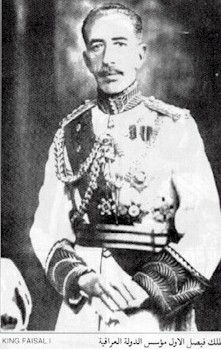 King of Syria